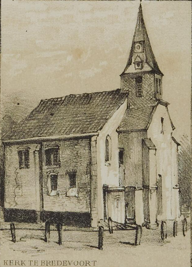 Church of Bredevoort (Netherlands)